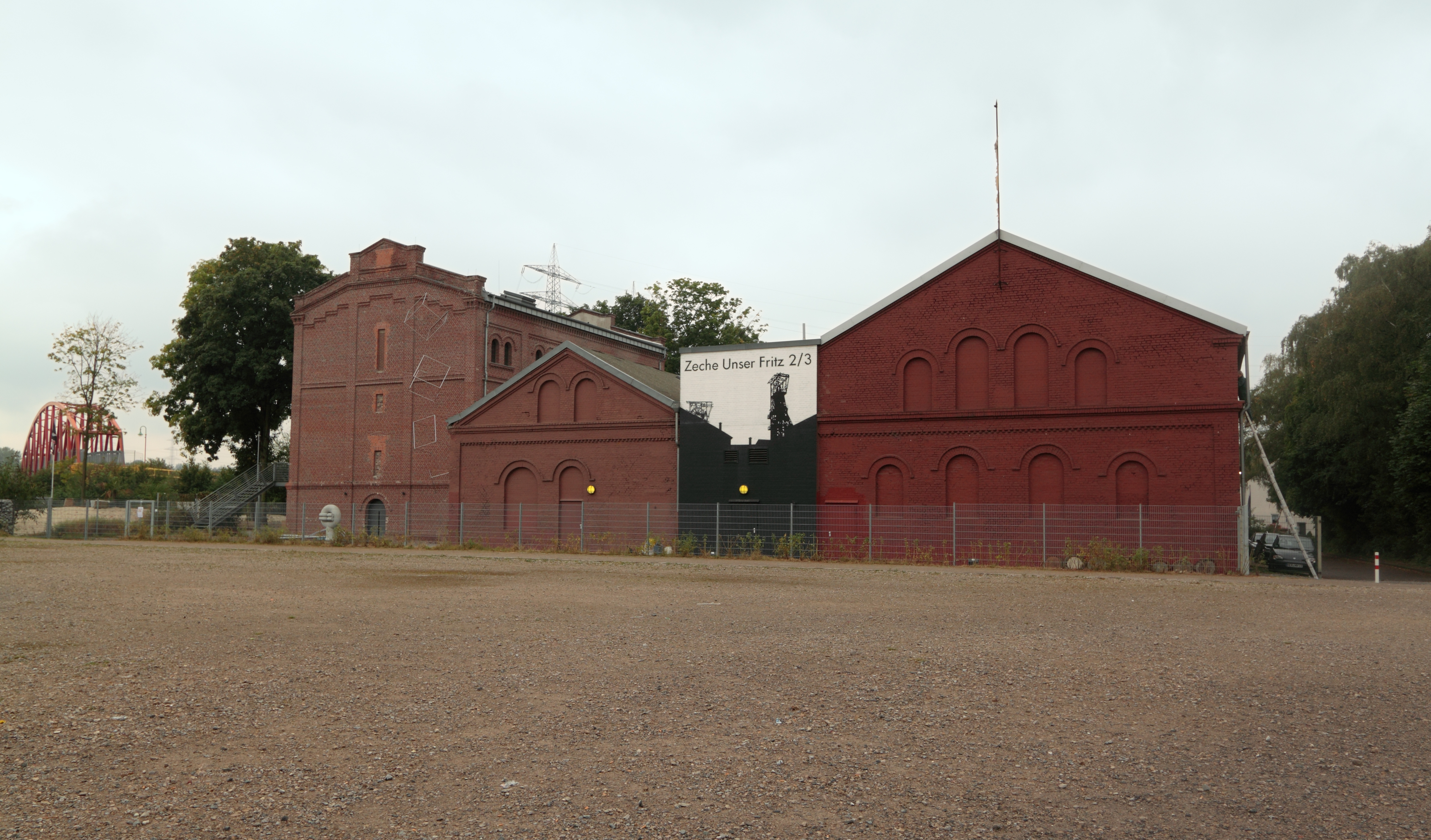 Künstlerzeche Unser Fritz 2/3 at Herne, Germany. A former coal mine - now hosting artists' studios and exhibition halls for contemporary art.